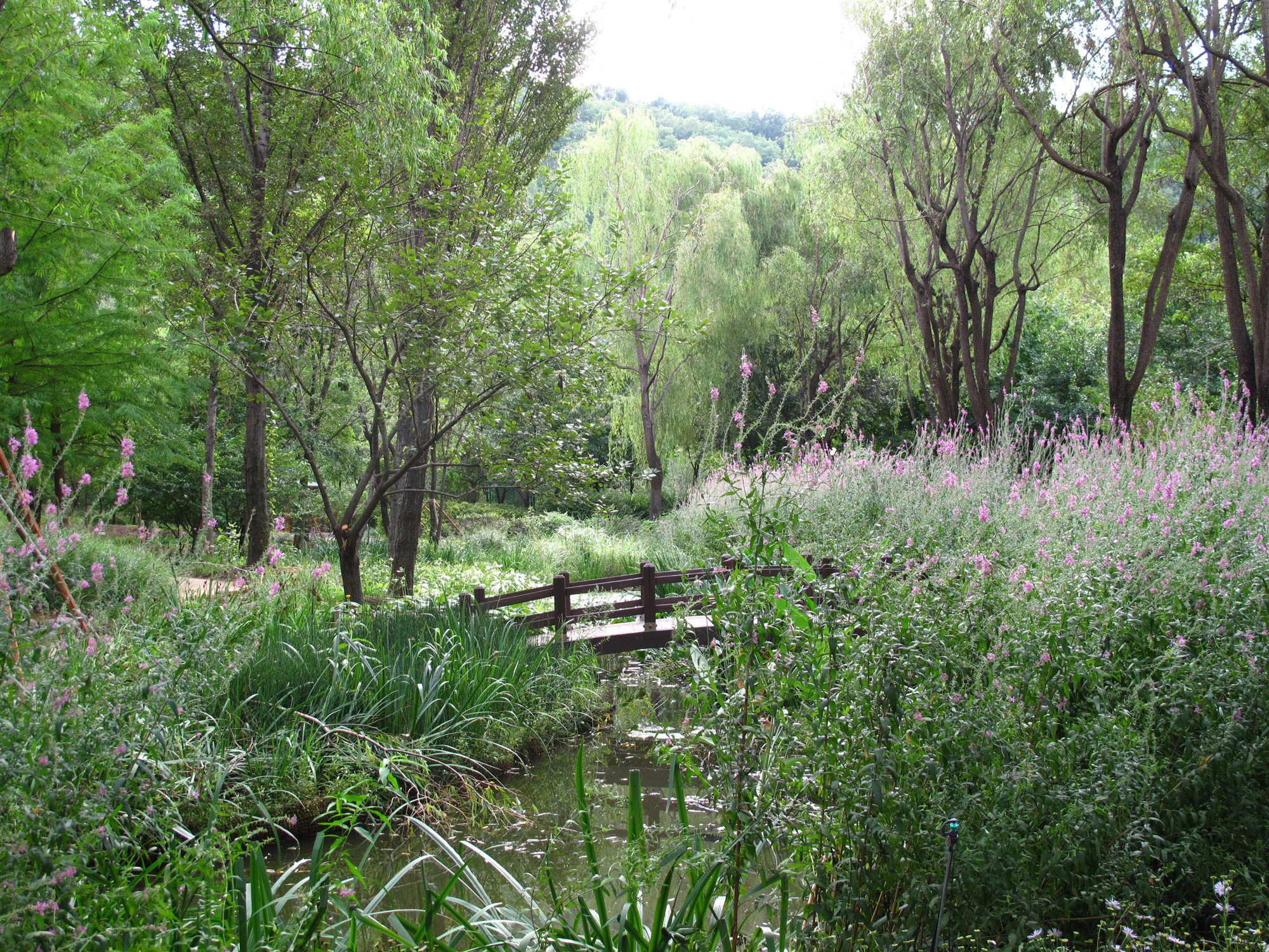 A bridge and greenery in Daegu Botanical Garden, South Korea